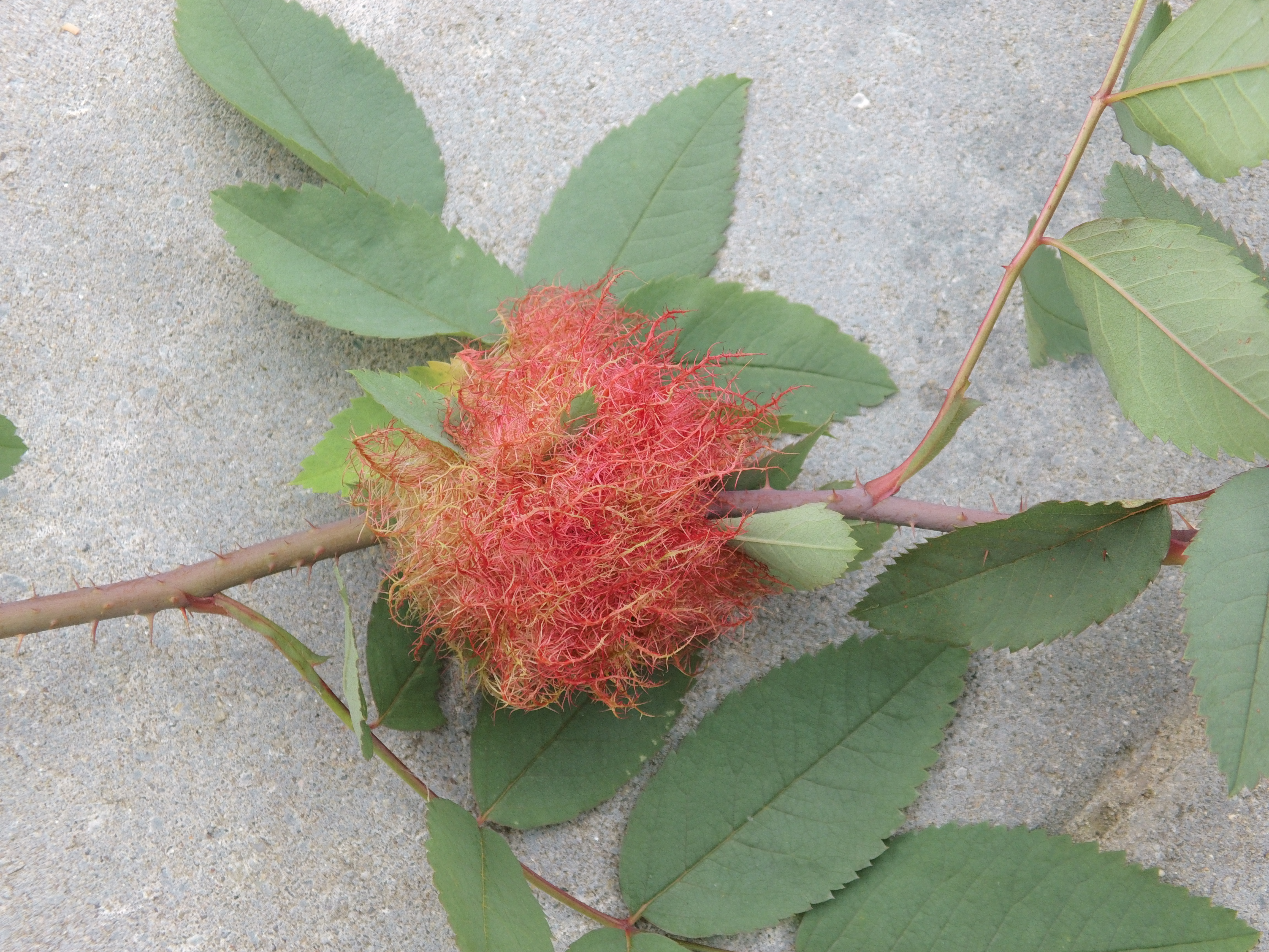 rose bedeguar gall